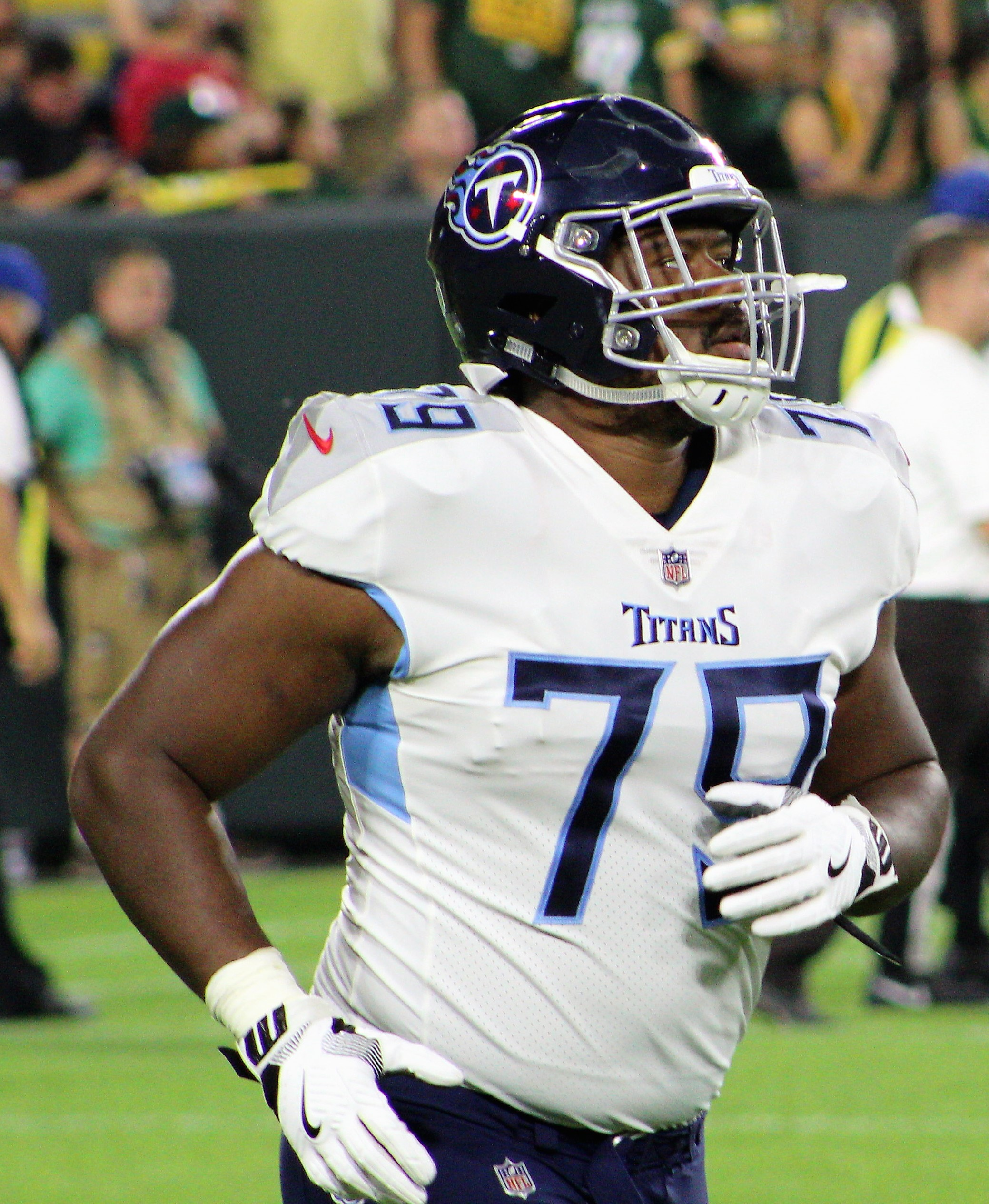 Laurence Gibson, Tennessee Titans at Green Bay Packers (Preseason), August 9, 2018